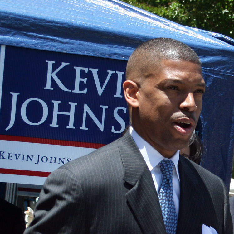 Kevin Johnson at a mayoral rally on 28 May 2008 in Cesar Chavez Park in Sacramento, California.